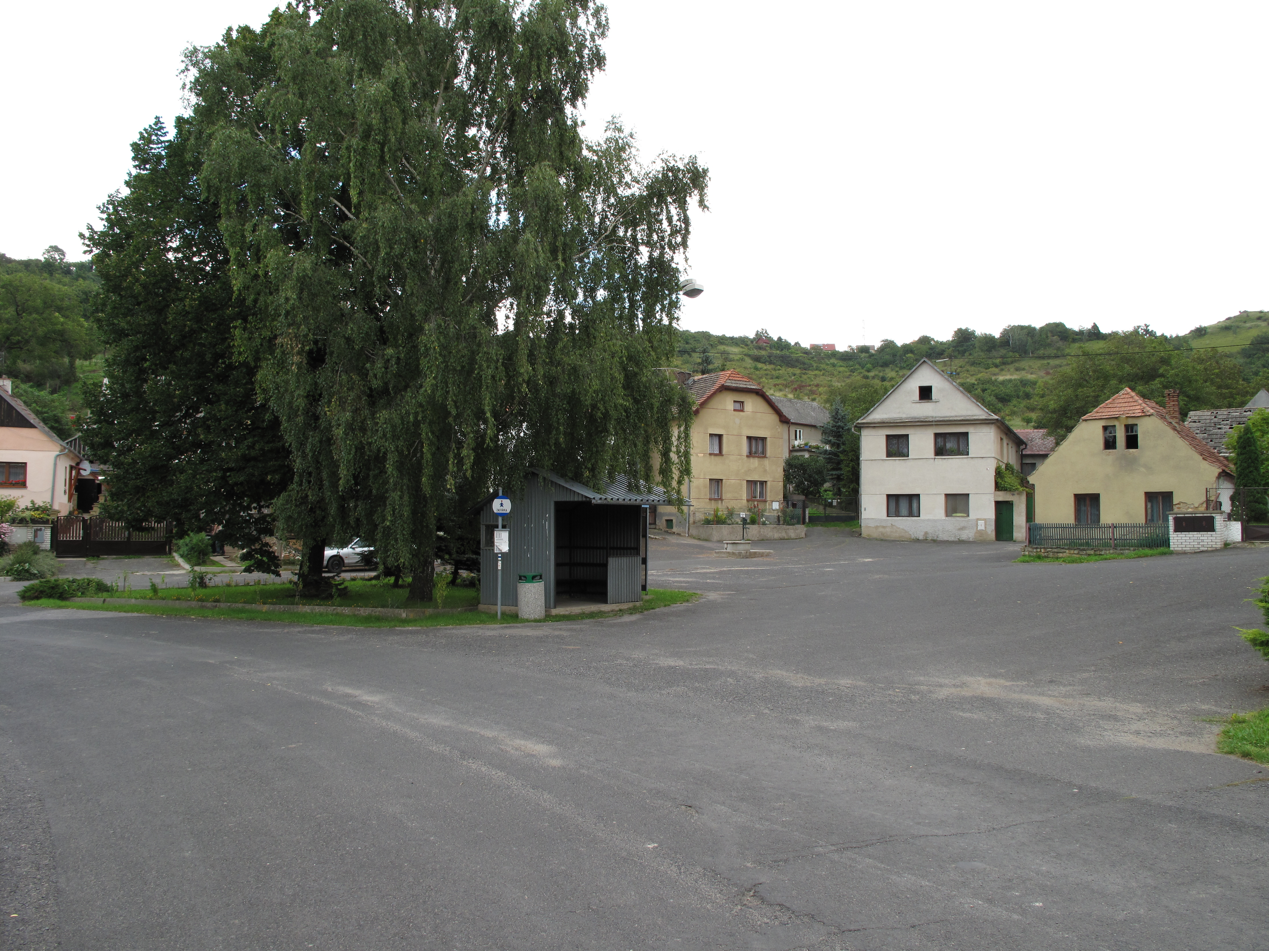 Village square in Malíč village, Litoměřice District, Czech Republic.